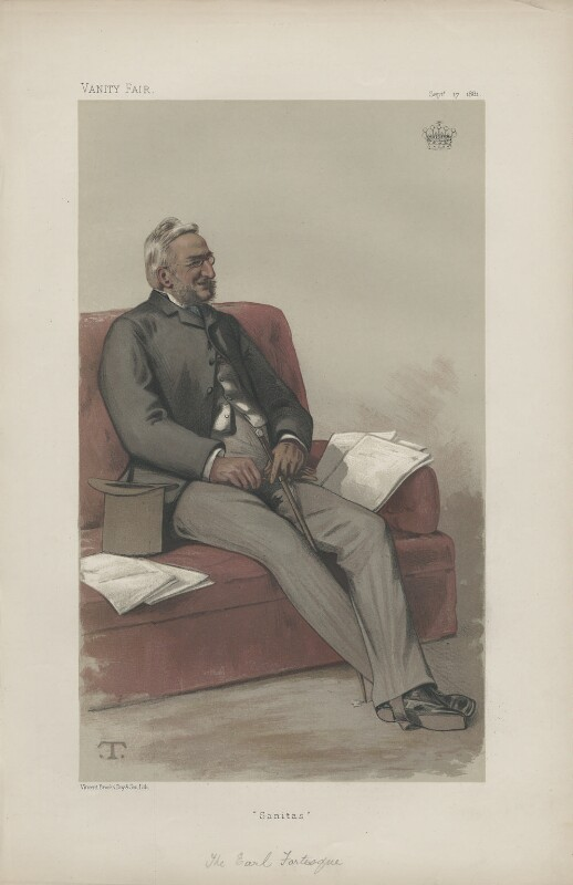 Caricature of Hugh Fortescue, 3rd Earl Fortescue. Caption read "Sanitas".